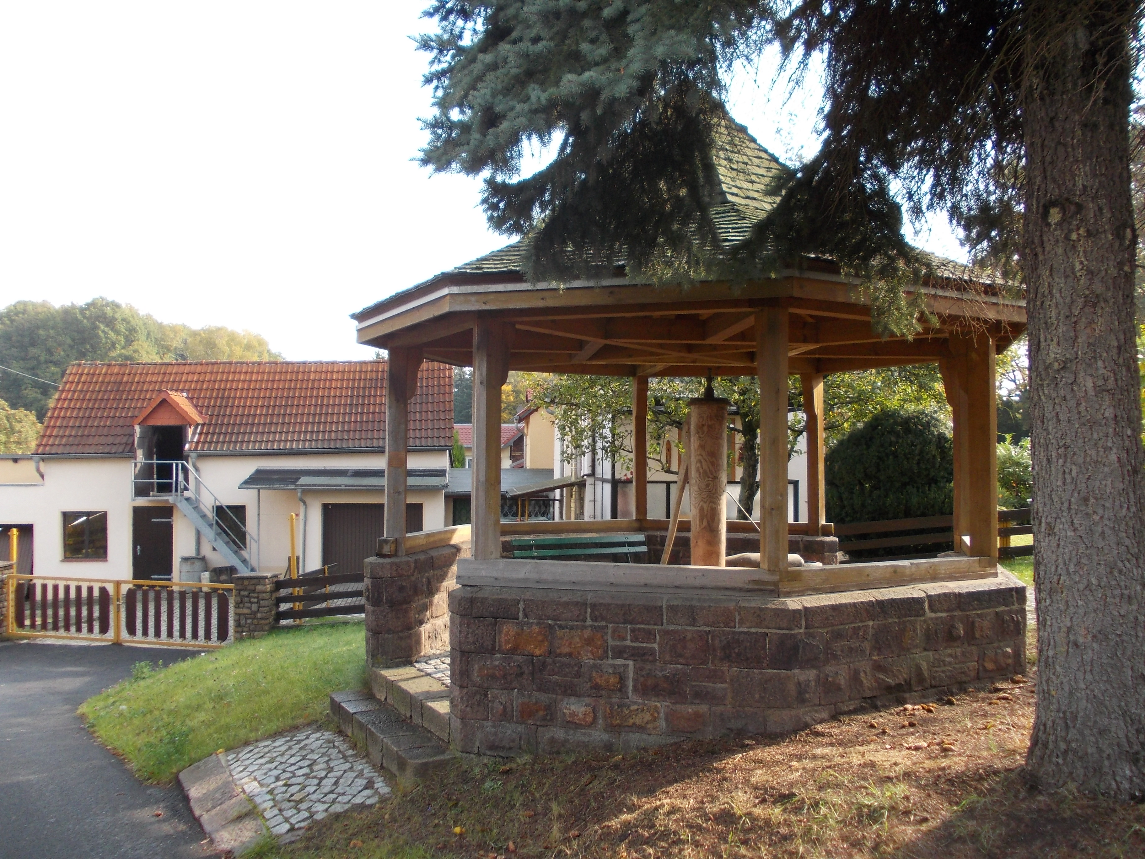 Village pump in Bahren (Grimma, Leipzig district, Saxony)